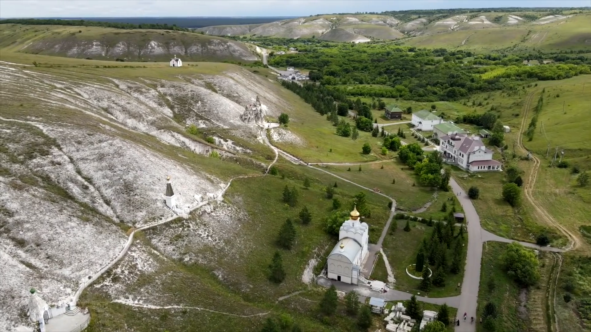 Voronezh oblast